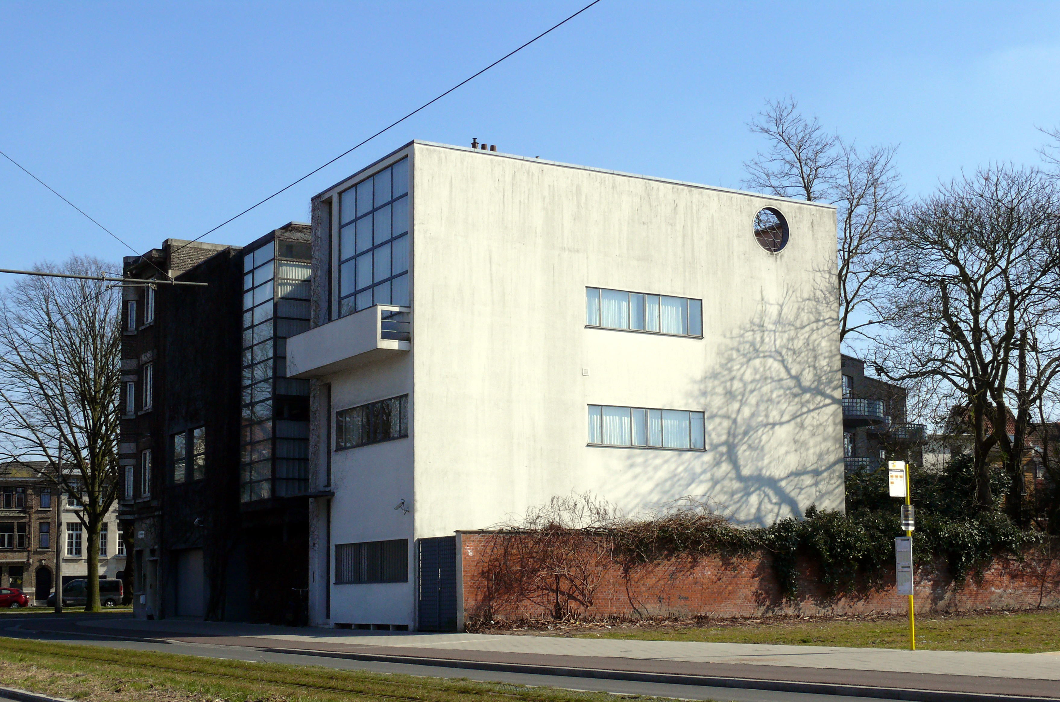 Huis Guiette in Antwerp, Belgium, designed by Le Corbusier in 1926, the construction was overseen by the Flemish archtect Paul Smekens.